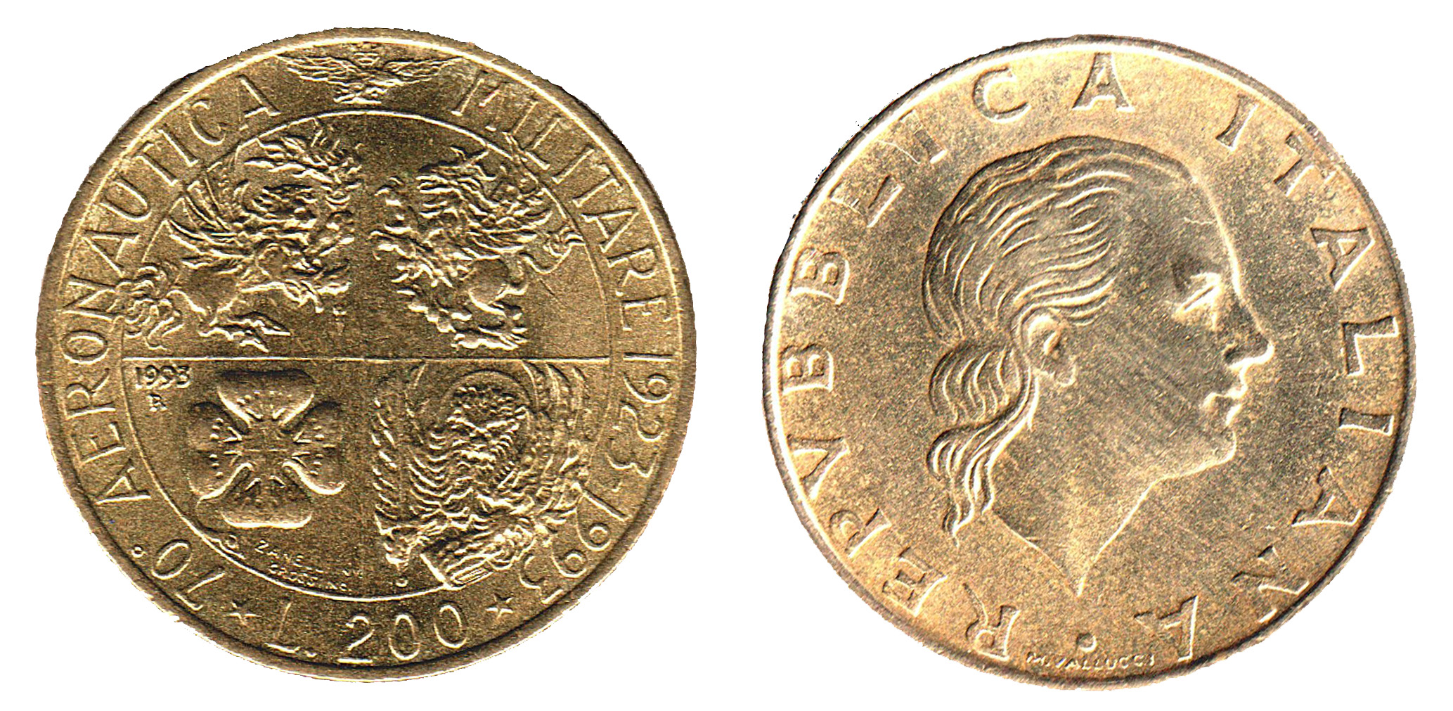 200 lire coin commemorating Militar Aeronautics (1923-1993)